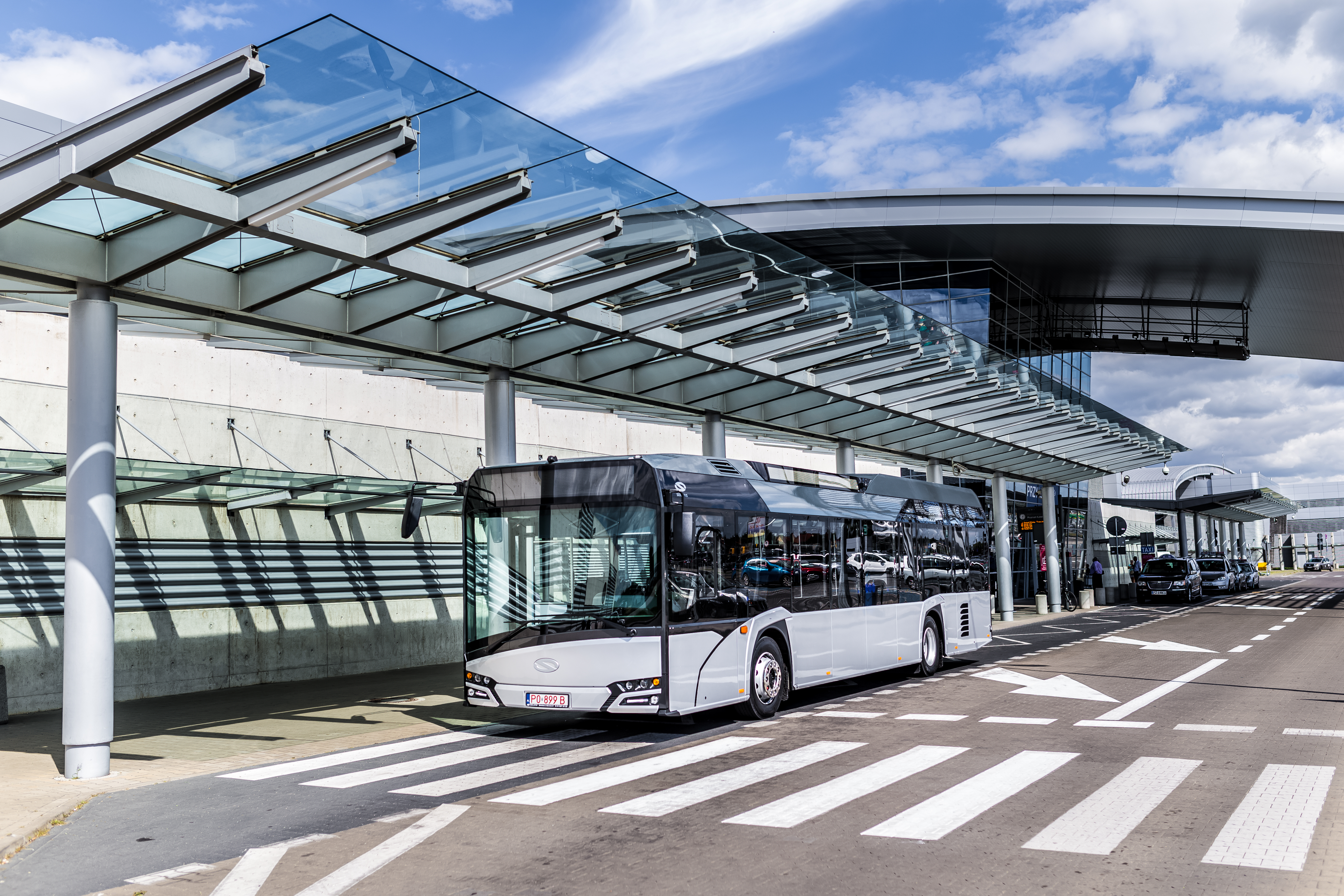 Solaris Urbino 12 LE IV generation in Poznań; buyer: Vienna Airport Lines